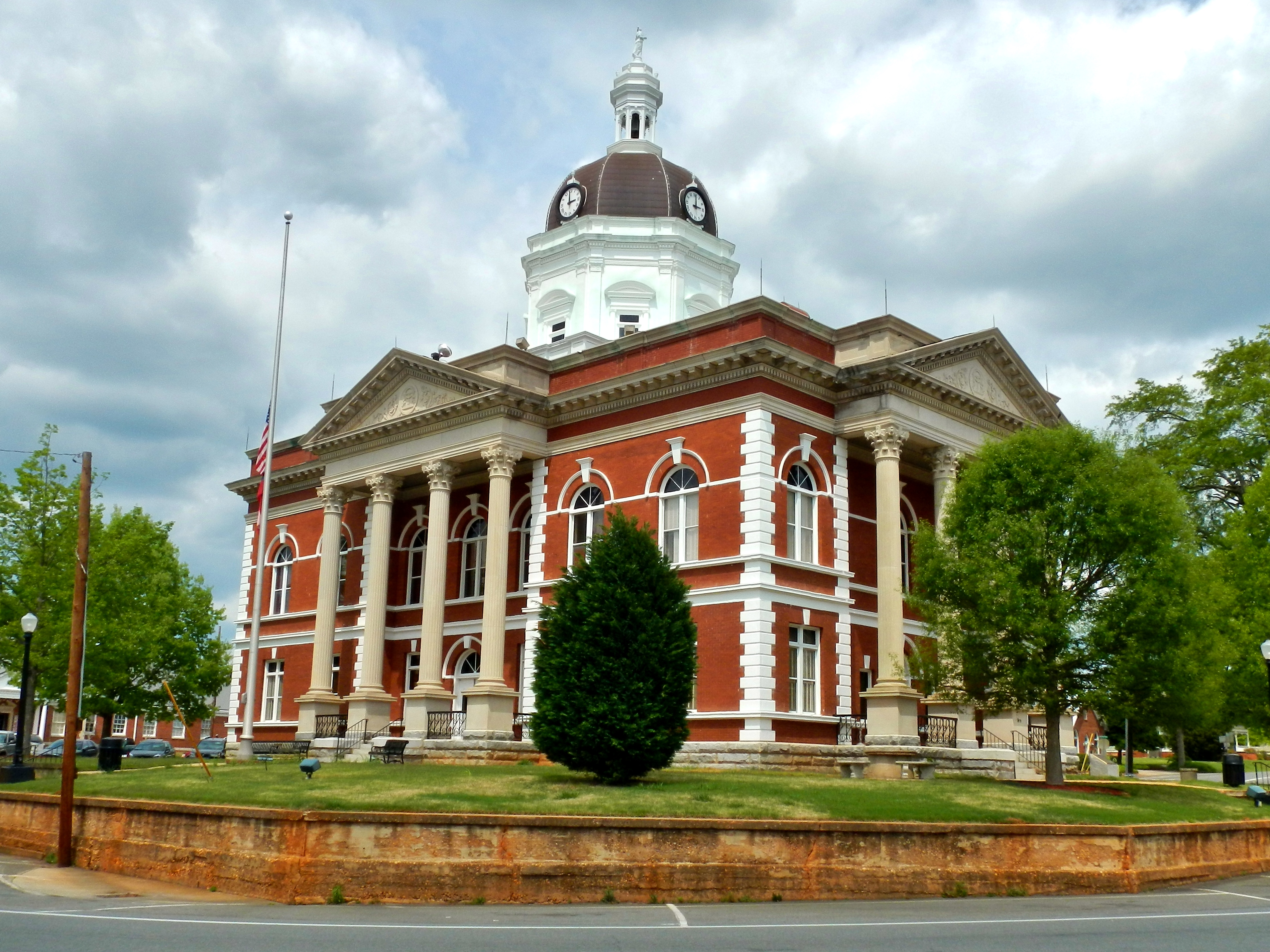 This is a photograph I took of the Meriwether County courthouse in Greenville, GA.